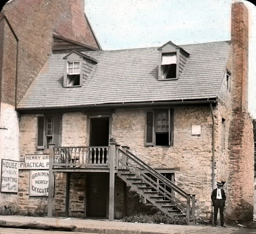 The Old Stone House located at 3051 M Street, NW in the Georgetown neighborhood of Washington